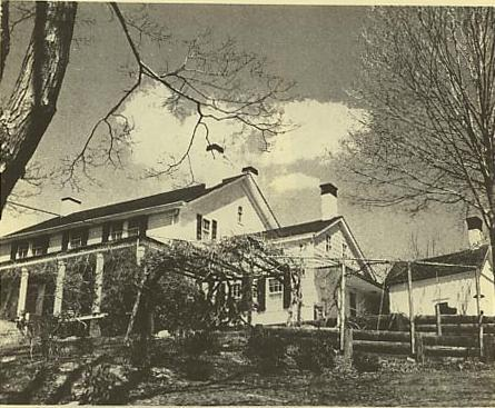 Seven Chimneys Mansion Washington Township